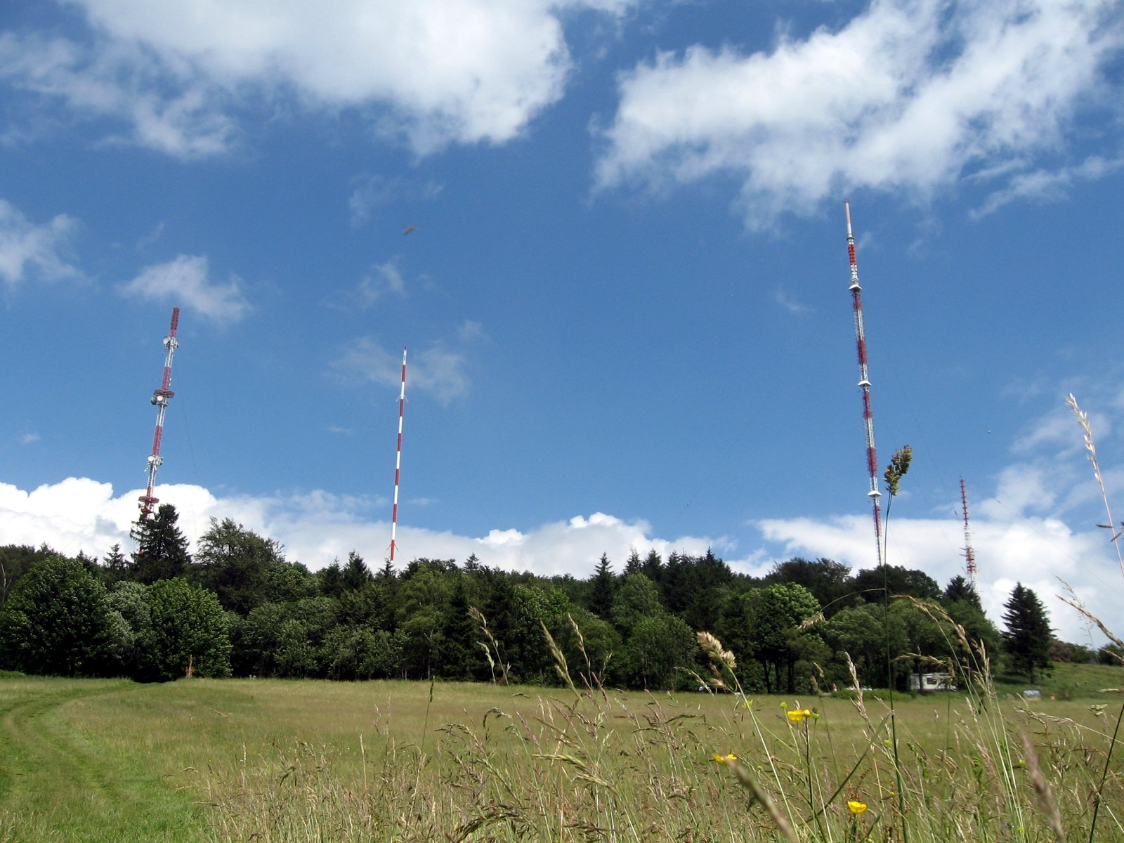 Germany / Hesse : Meissner Mountain